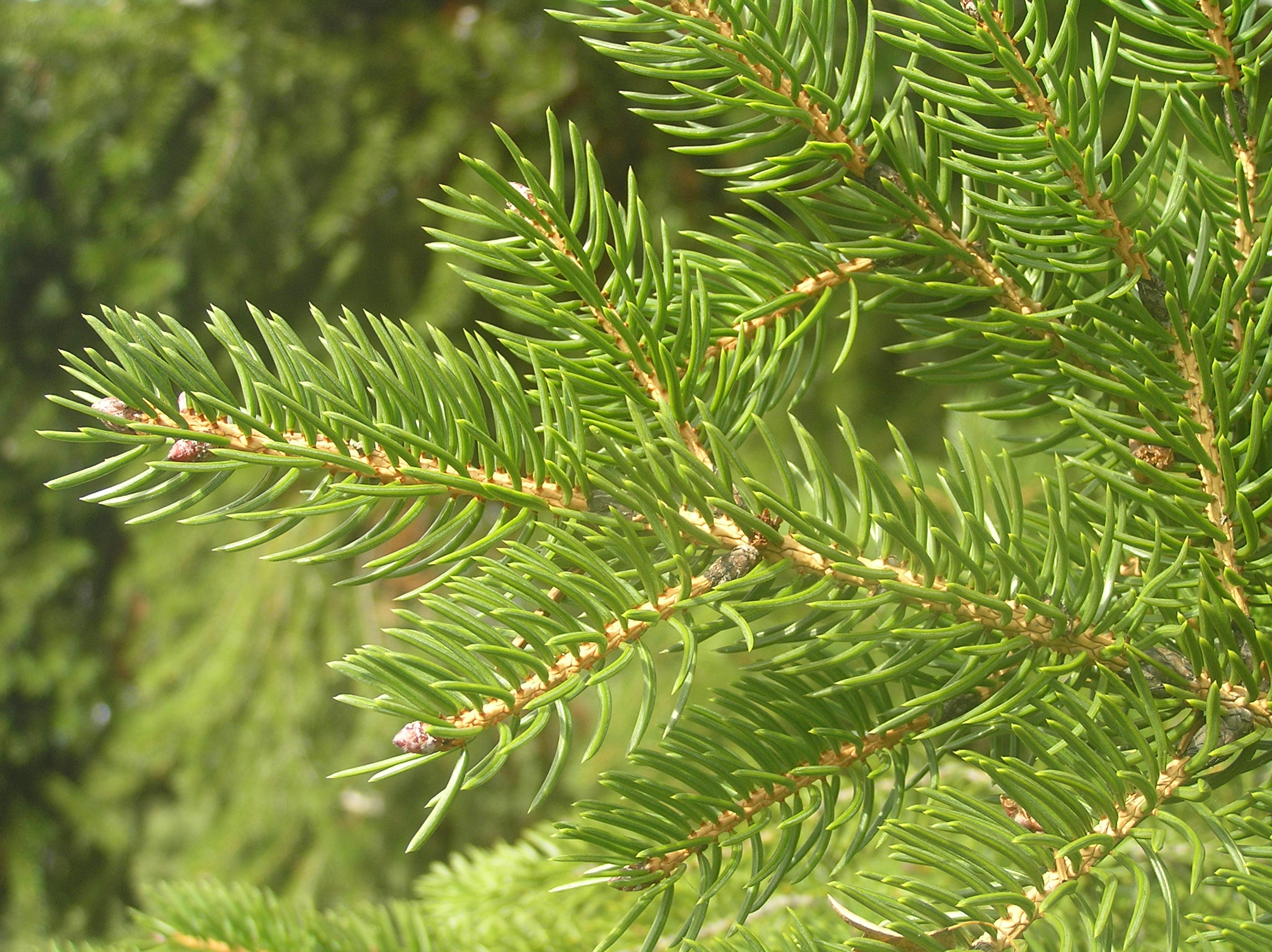 Picea torano, cultivated in Brno, Czech Republic